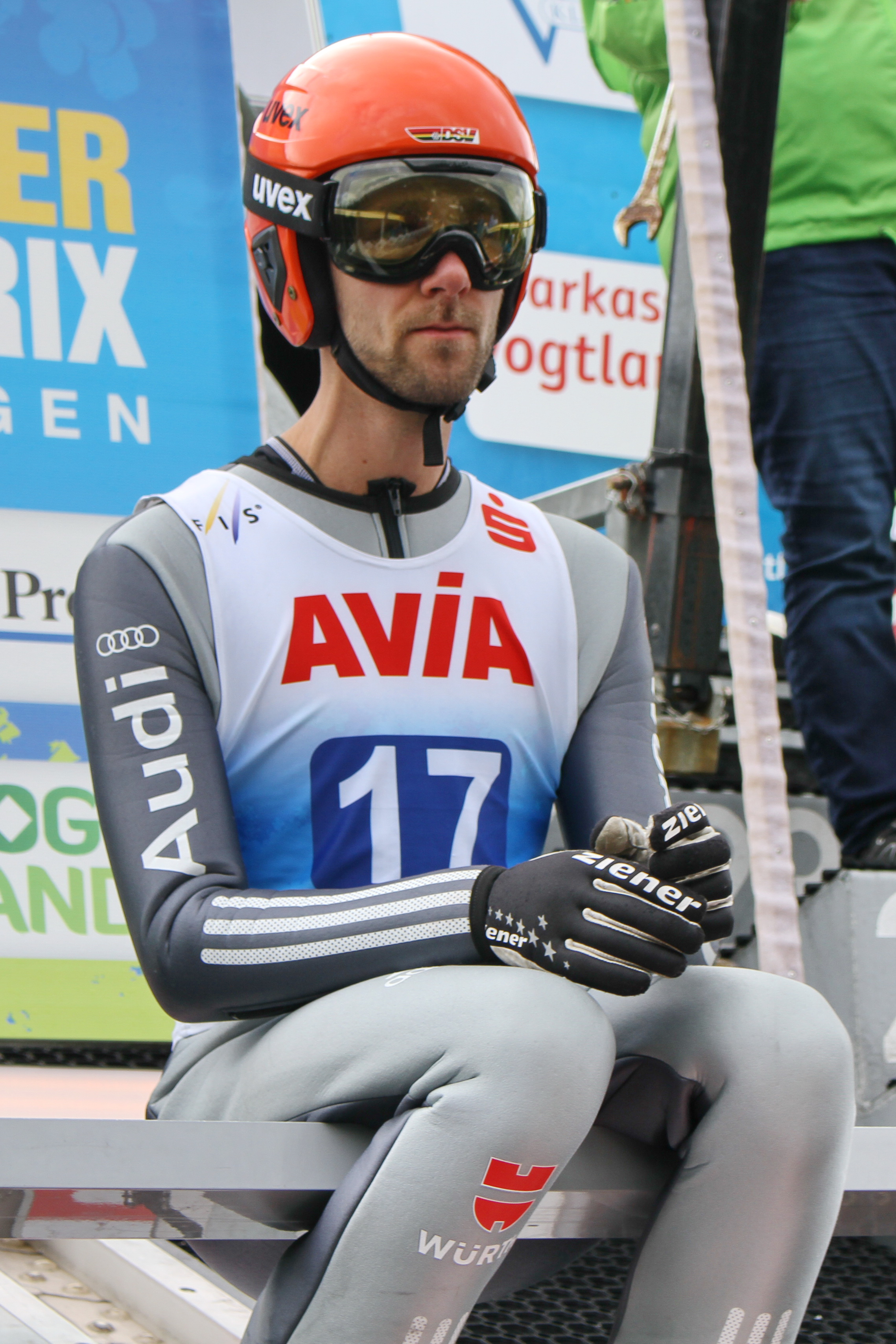 FIS Ski Jumping Summer Grand Prix Klingenthal 2017 on 2017-10-03 Pius Paschke